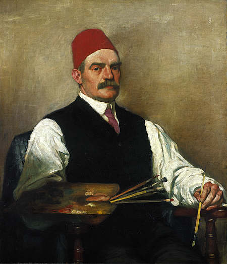 William Strang was a talented painter as well as a masterly and prolific printmaker. His etchings include striking portraits of sitters such as Thomas Hardy, Rudyard Kipling and Robert Louis Stevenson. Towards the end of his life Strang etched less and painted more. Inspired by Dutch artist Rembrandt, he produced a series of self-portraits in a variety of guises. This particular one shows the artist wearing a `fez?, a red felt hat that originates from Morocco, but was worn throughout the Ottoman Empire during the nineteenth century. Unfortunately, we do not know why he chose to paint himself in this particular way.